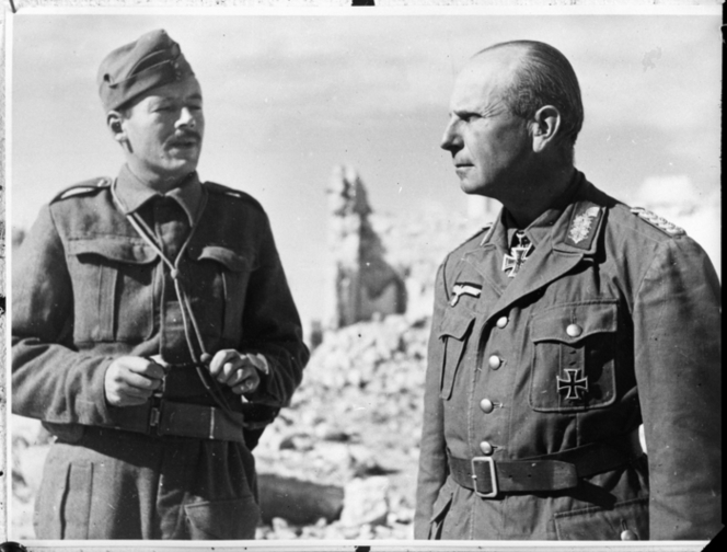 Captive German General Johann Theodor von Ravenstein, after his capture by the 21 New Zealand Battalion, with a British staff officer at Tobruk, Libya, during World War II. Taken circa 28 November 1941 by an official photographer. New Zealand. Department of Internal Affairs. War History Branch:Photographs relating to World War 1914-1918, World War 1939-1945, occupation of Japan, Korean War, and Malayan Emergency. Ref: DA-02004-F. Alexander Turnbull Library, Wellington, New Zealand.